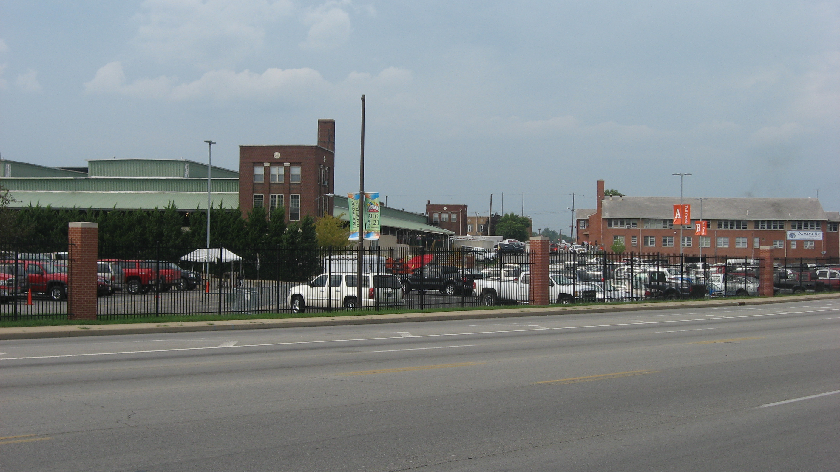 Parking lots at the Indiana State Fairgrounds, located on the western side of Fall Creek Parkway just north of its intersection with 38th Street in Indianapolis, Indiana, United States. The parking lot occupies the site of the Tee Pee Restaurant, which was listed on the National Register of Historic Places before it was destroyed.